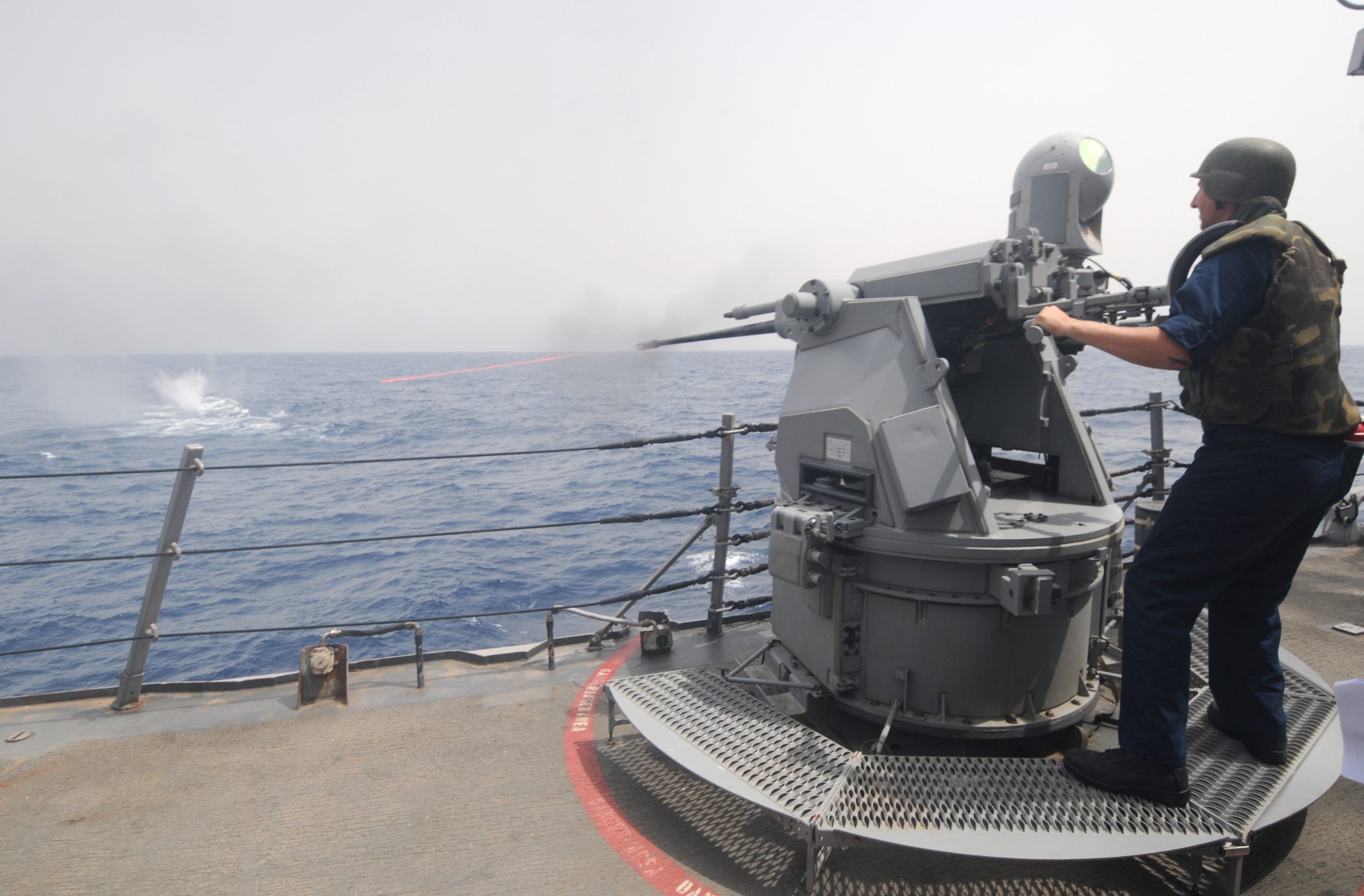 GULF OF ADEN (July 22, 2011) Gunner's Mate 3rd Class Travis Hoffman fires a MK 38 25mm machine gun during a gun exercise aboard the guided-missile destroyer USS Mitscher (DDG 57). Mitscher is deployed to the U.S. 5th Fleet area of responsibility conducting maritime security operations and support missions as part of Operations Enduring Freedom and New Dawn. (U.S. Navy photo by Mass Communication Specialist 3rd Class Deven B. King/Released)